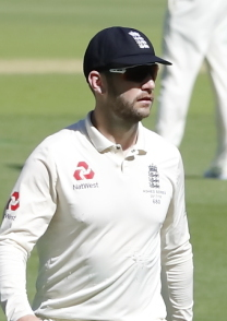 Mark Stoneman fielding during Day 1 of the 1st Test of the 2017/18 Ashes